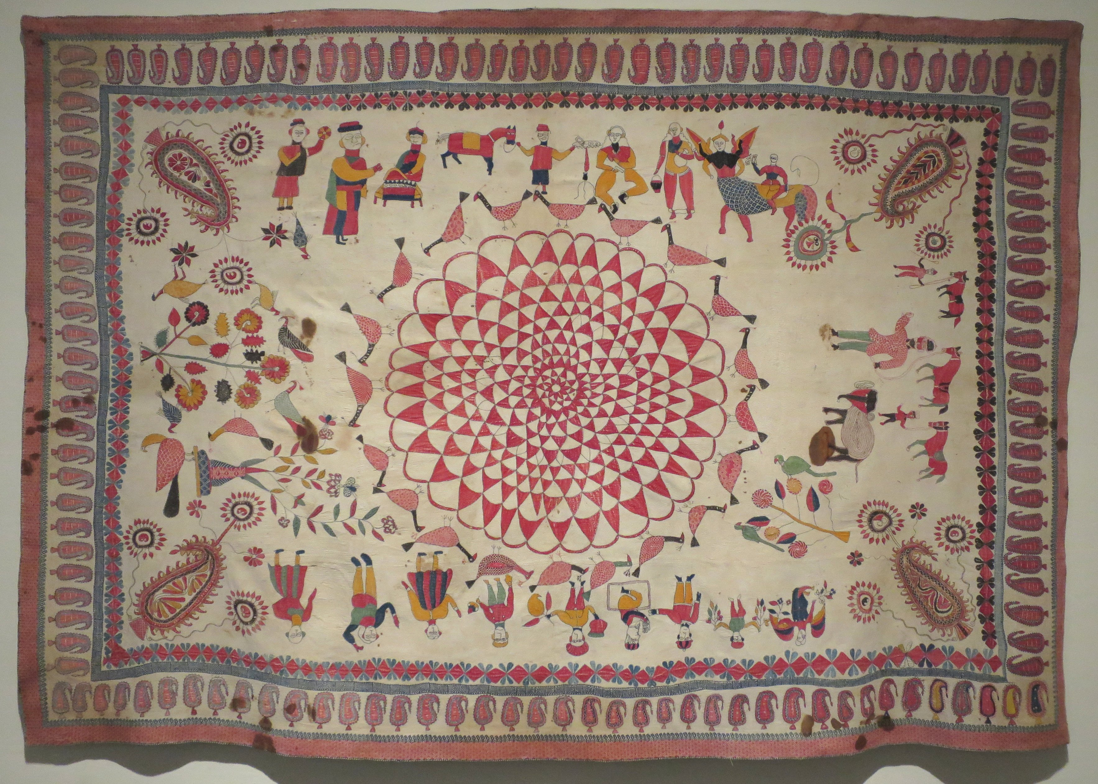 Kantha (bed cover), West Bengal, eastern India, late 19th-early 20th century, cotton, plain weave, embroidery, Honolulu Museum of Art accession 3928.1